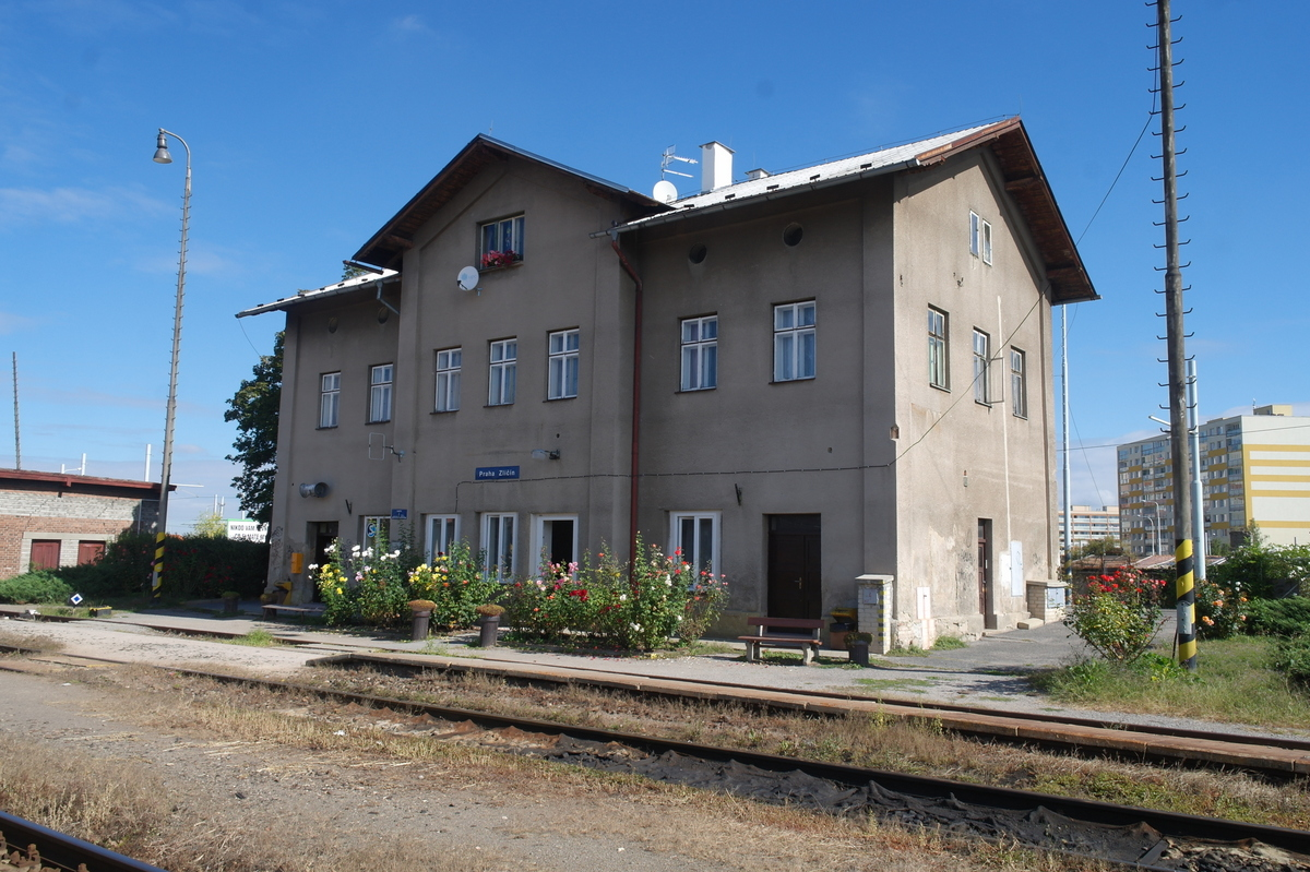 Zličín railway station, Drahoňovského str., Řepy, Prague 17-Řepy, Capital city Prague. Originally Řepy railway station, Buštěhrad track, in operation since the year 1872.